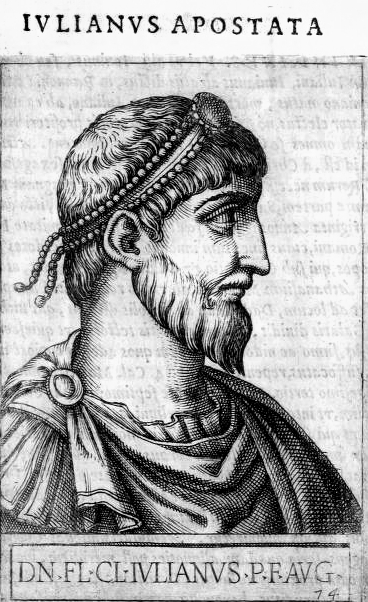 Giovan Battista Cavalieri, Romanorum imperatorum effigies, Roma, 1592 Iulianus